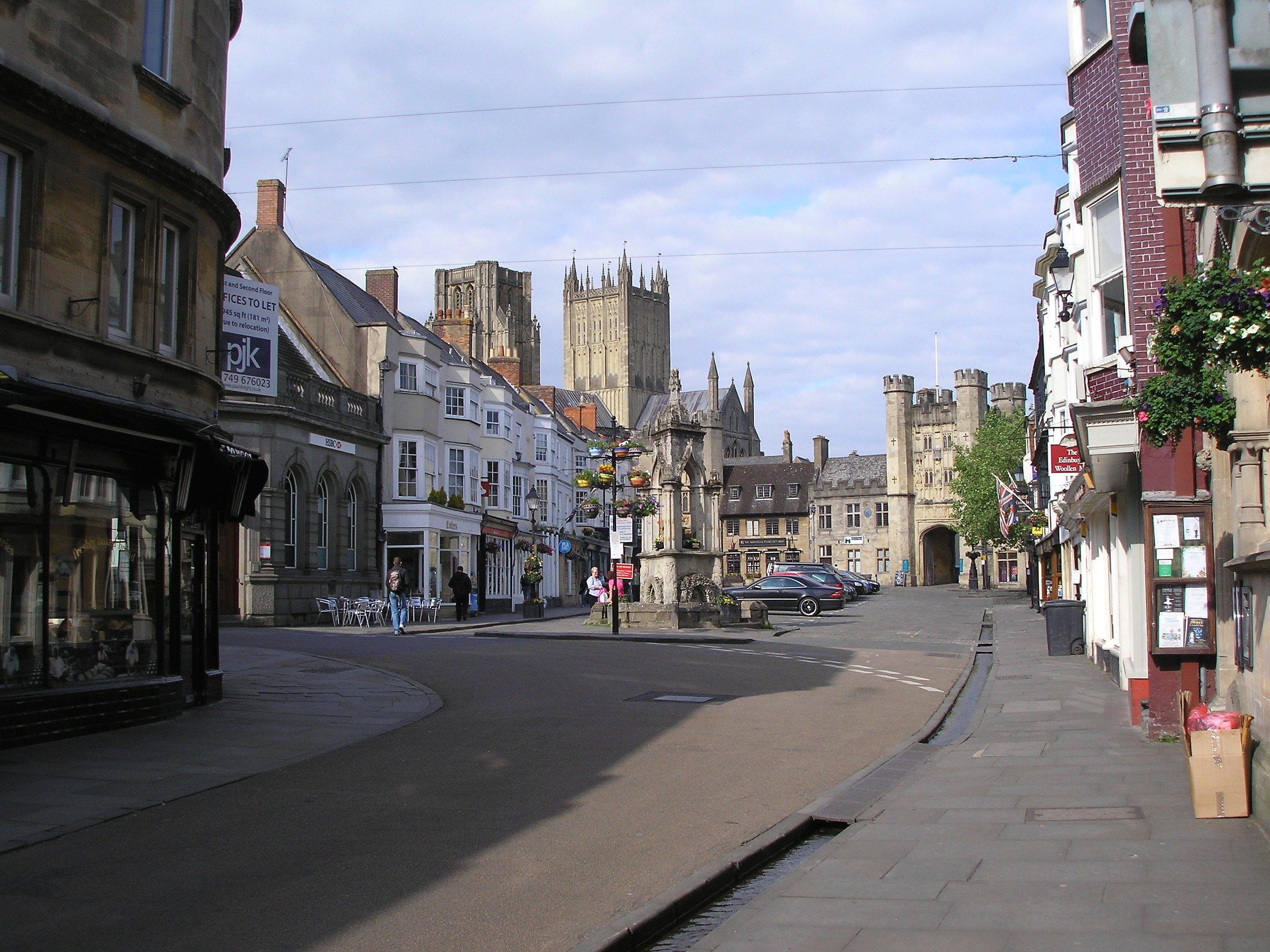 A picture of Wells Somerset, captured on 24 June 2013. Camera: Olympus FE-120 6.0 Digital.